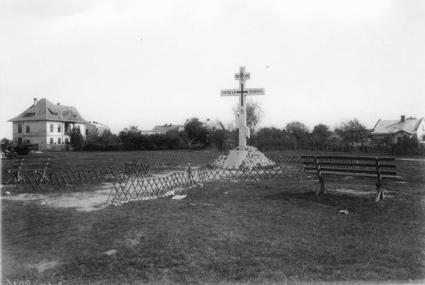 The Hill of Glory, 1915. Lviv, Ukraine